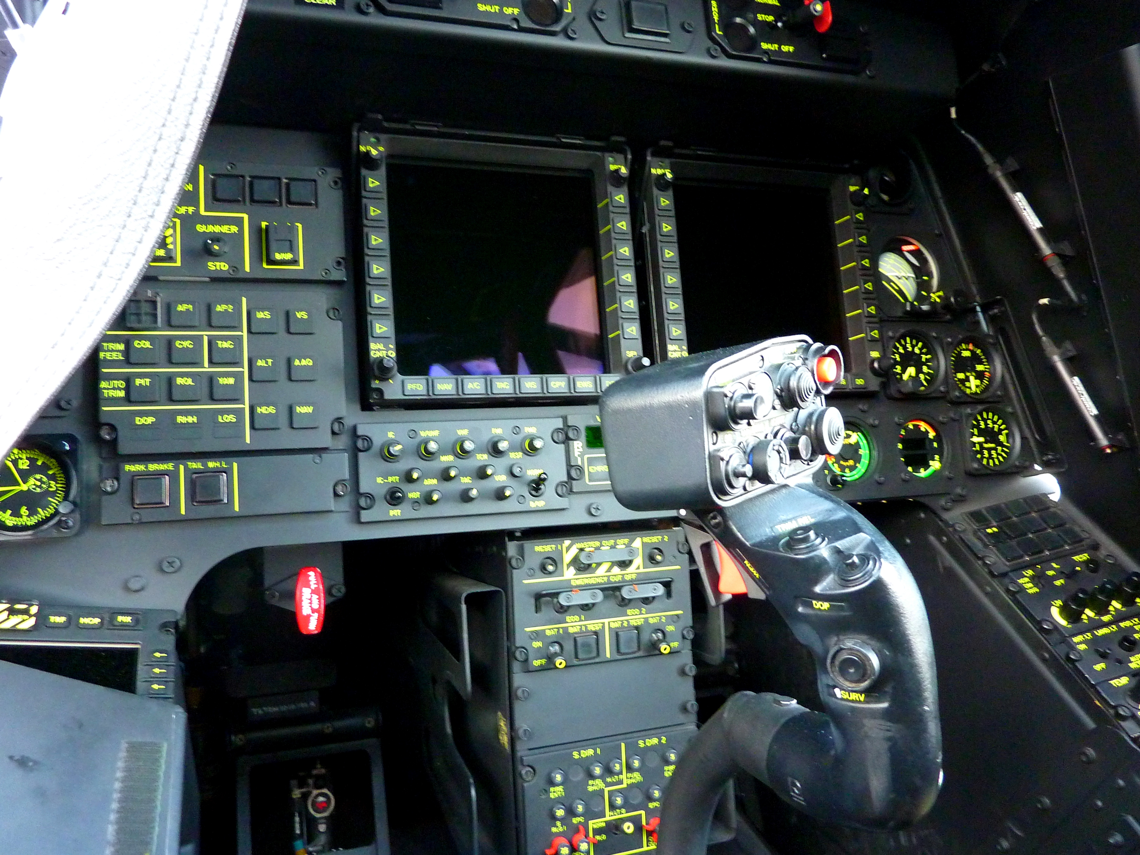 Spanish Army Tiger HAP fore cabin.